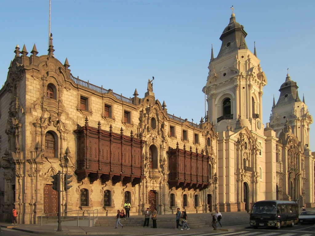 The Archipishop's Palace and Cathedral of Lima stand on the east side of the Plaza de Armas in Lima, Peru.